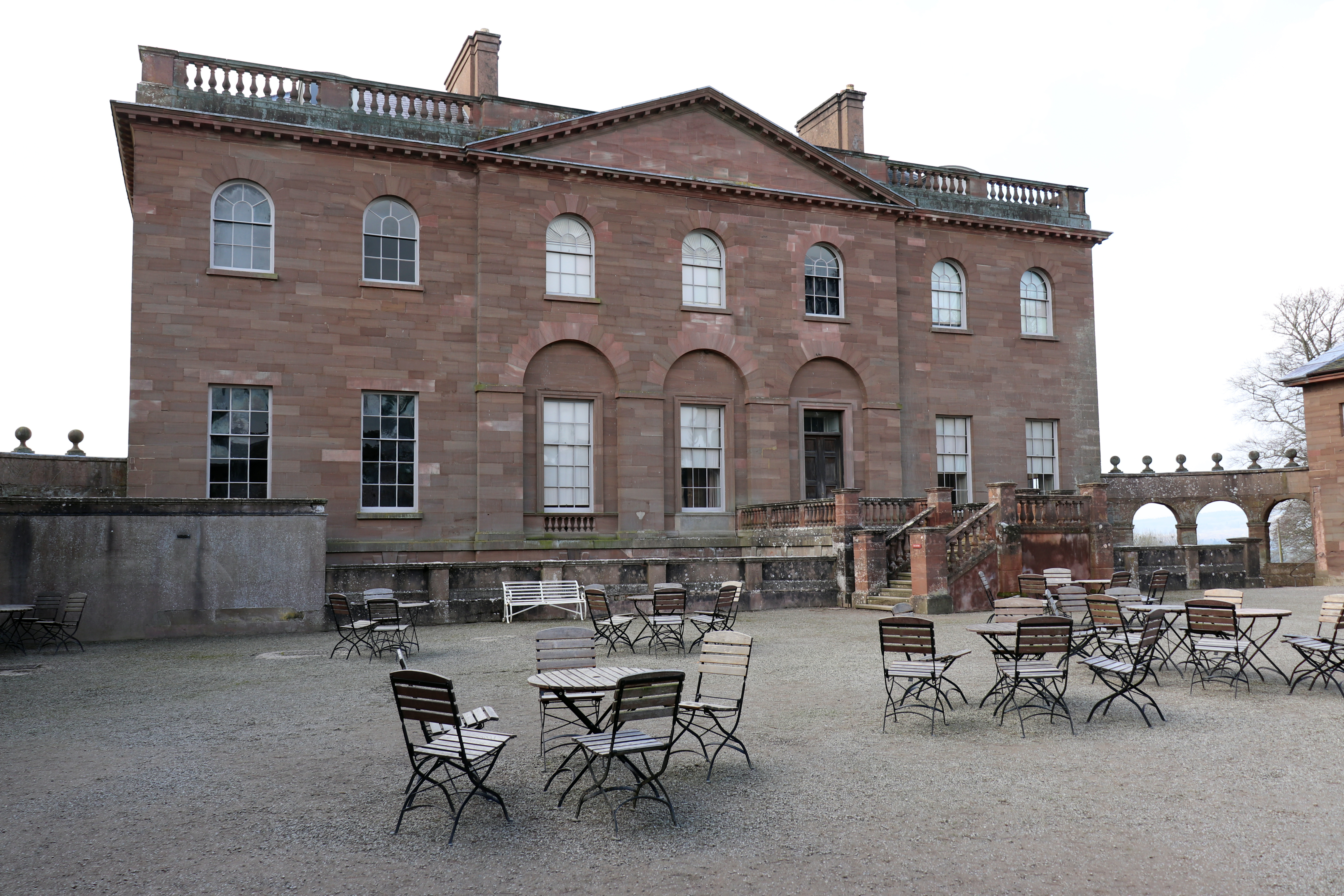 Berrington Hall Courtyard, Leominster, Herefordshire